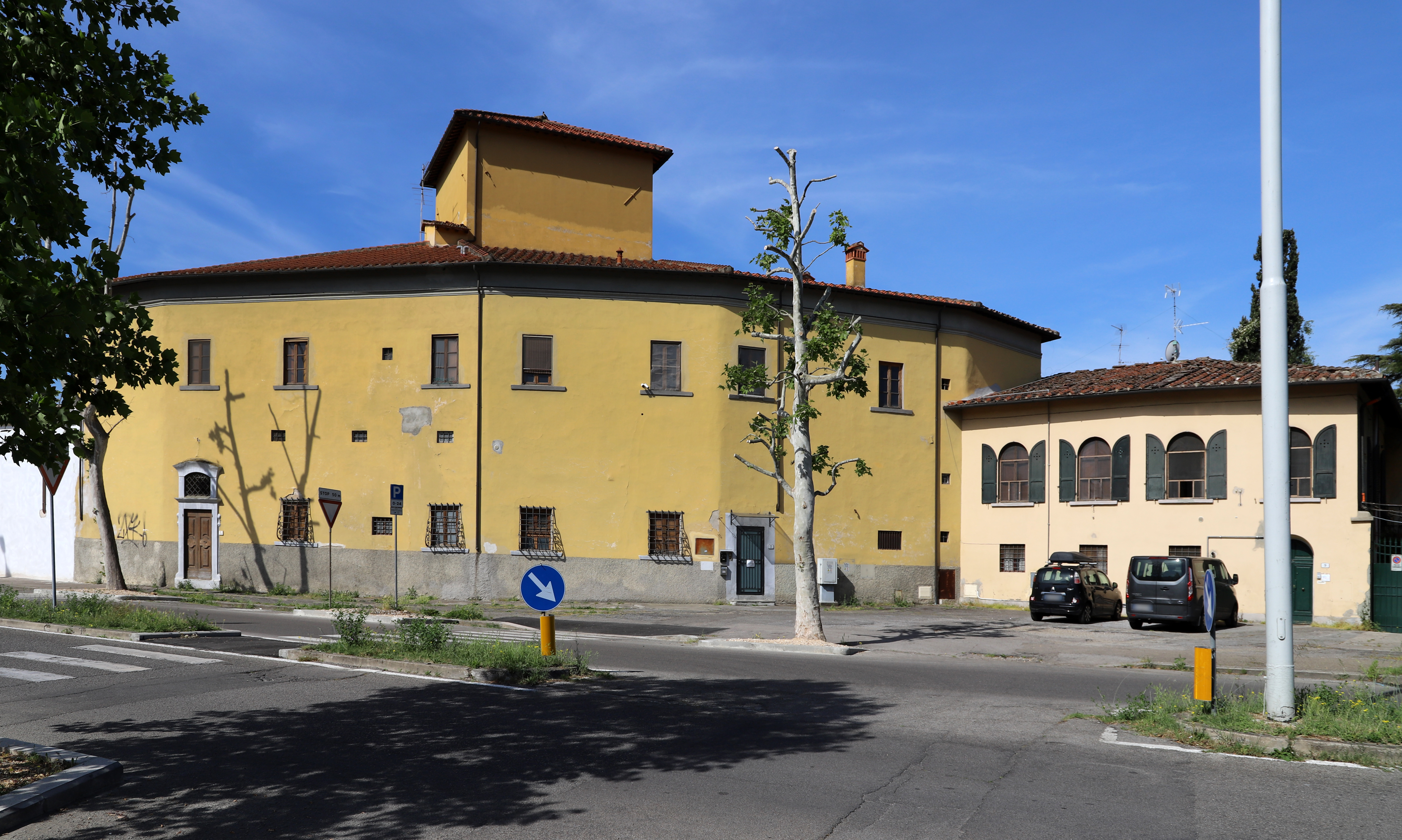 Florence architecture